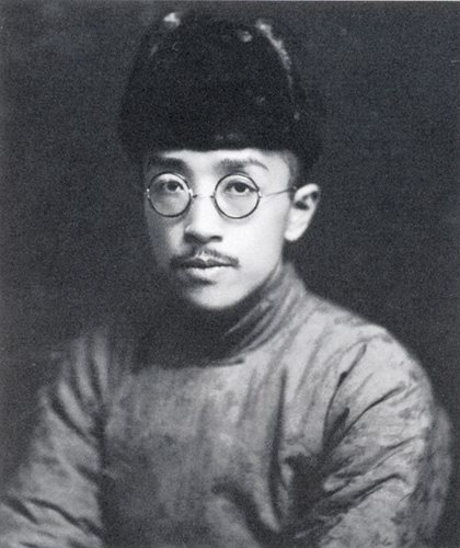 Hu Shih in the winter of 1921